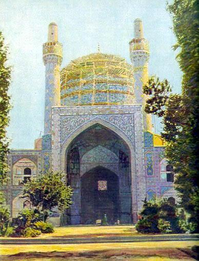 Isfahan, Original caption: THE INNER COURTYARD OF MEDRESSEH-I SHAH HUSEIN AT ISPAHAN, PERSIA'S MOST FAMOUS COLLEGE : Medresseh-I Shah Husein, a college for the training of mullahs and dervishes, was built about the beginning of the 18th century by Shah Husein. Within its walls the students live in alcoves around a large court. The scaffolding indicates that the exquisite turquoise tiling of the dome and the minarets is being repaired. Photo by Harold F. Weston.